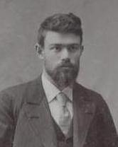 Bulgarian writer and dramatist Ivan Grozev